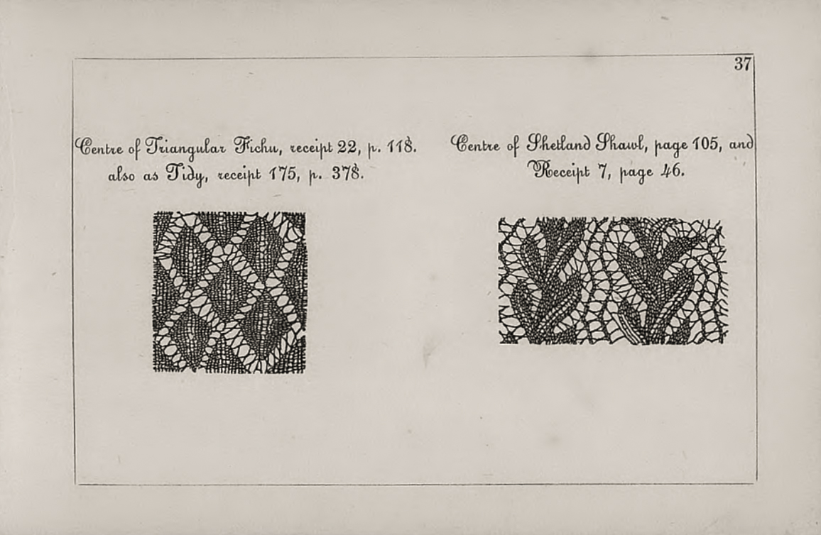 Jane Gaugain was a nineteenth-century knitter and writer who wrote instructional books for knitters that helped popularize the skill. This is page 37 of her instructional knitting book "The Accompaniment to Second Volume of Mrs Gaugain's Work on Knitting, Netting and Crochet, Illustrating the Open Patterns and Stitches; To Which are Added Several Elegant and New Receipts," published 1845.